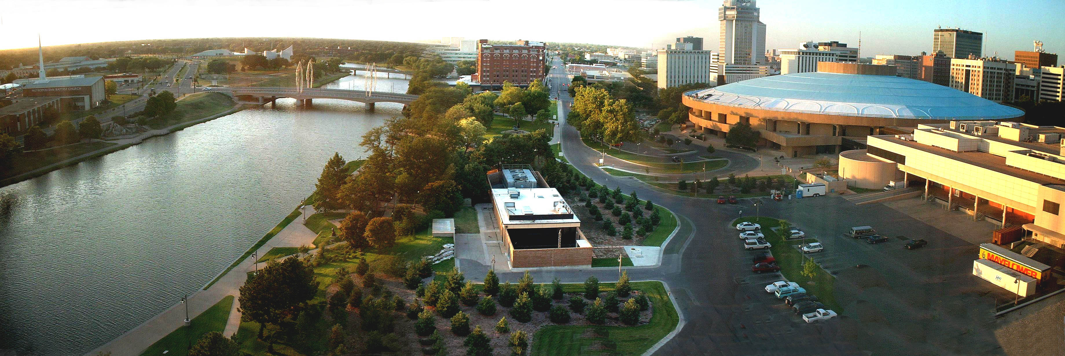 Downtown Wichita, Kansas panorama photo by Hugh Mason